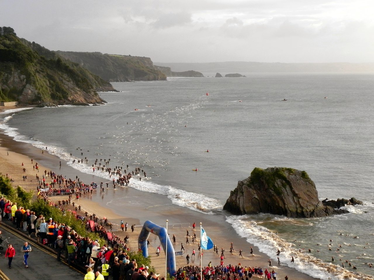 7.30 am and the swimmers are half way through the first leg of the Iron Man Wales triathlon event. After swimming round a 1.9km course in the bay, the swimmers leave the water (to the right of the Gosker Rock as we look) run through the blue gate and re-enter the water on the other side of the rock to complete the second lap of the swim. After completing the swim, the competitors will undertake a 112 mile (180km) bike race and finish with a marathon (26.2 miles) on the roads of Pembrokeshire.